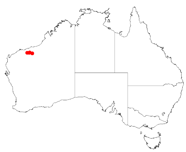 Acacia leeuweniana Occurrence data from Australasia Virtual Herbarium downloaded from on 8 December 2018